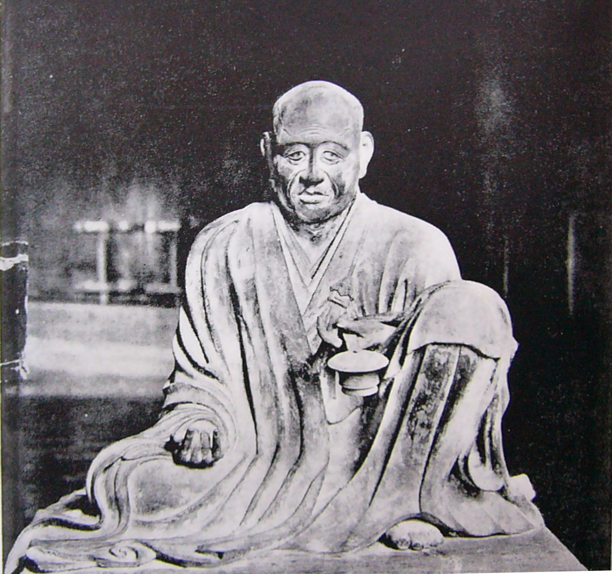 Gyōga :Six Patriarchs of the Hossō sec, Wood, atlier Kōkei , about ACE1187, late Heian period, total height 74.8 cm (29.4 in), Kōfuku-ji, Nara,, Japan